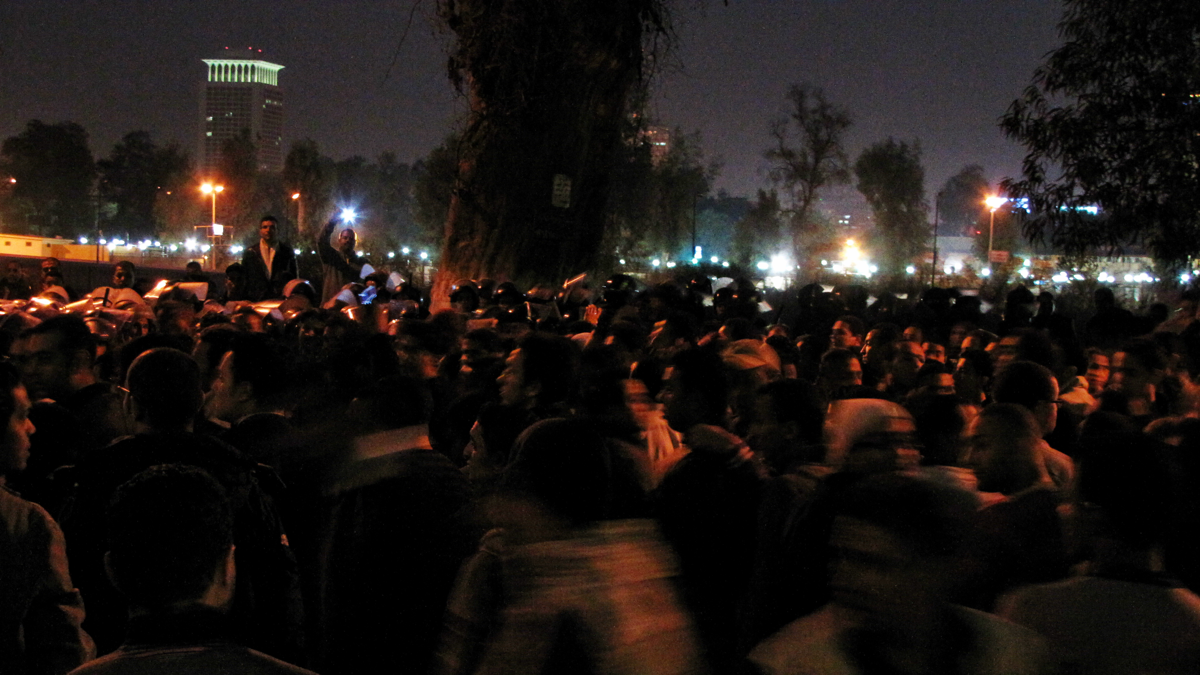 A photograph of demonstrators chanting anti-government slogans in Giza, Egypt, during the 2011 Egyptian protests.